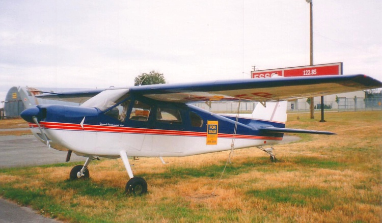 Found Centennial 100 at Abbotsford Airport on July 4, 1995.